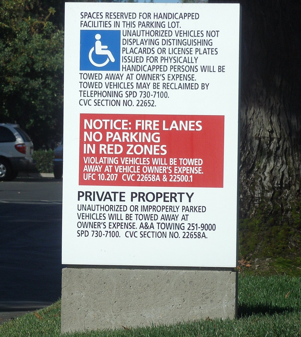 A large traffic sign posted at the entrance to a parking lot in Sunnyvale which reminds drivers of applicable laws and regulations. Signs similar to this one are commonly found in parking lots throughout the United States (although this particular sign combines messages which are usually found on two or three separate signs). This sign contains citations to the California Vehicle Code (CVC) and the Uniform Fire Code (UFC). The SPD is the Sunnyvale Police Department, which is part of the Sunnyvale Department of Public Safety.